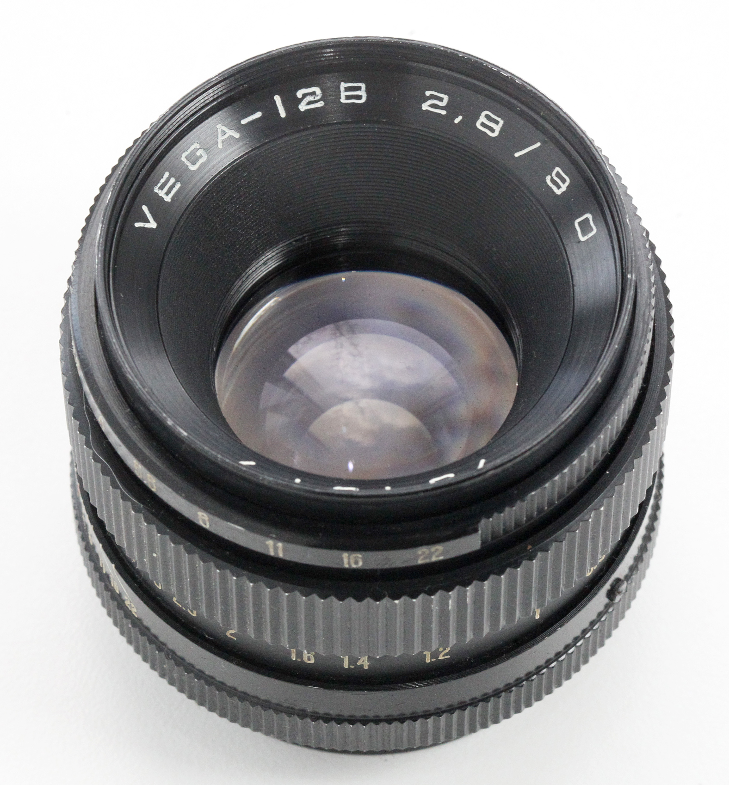 Soviet lens 'Vega-12V' for 'Salyut-S' SLR-camera